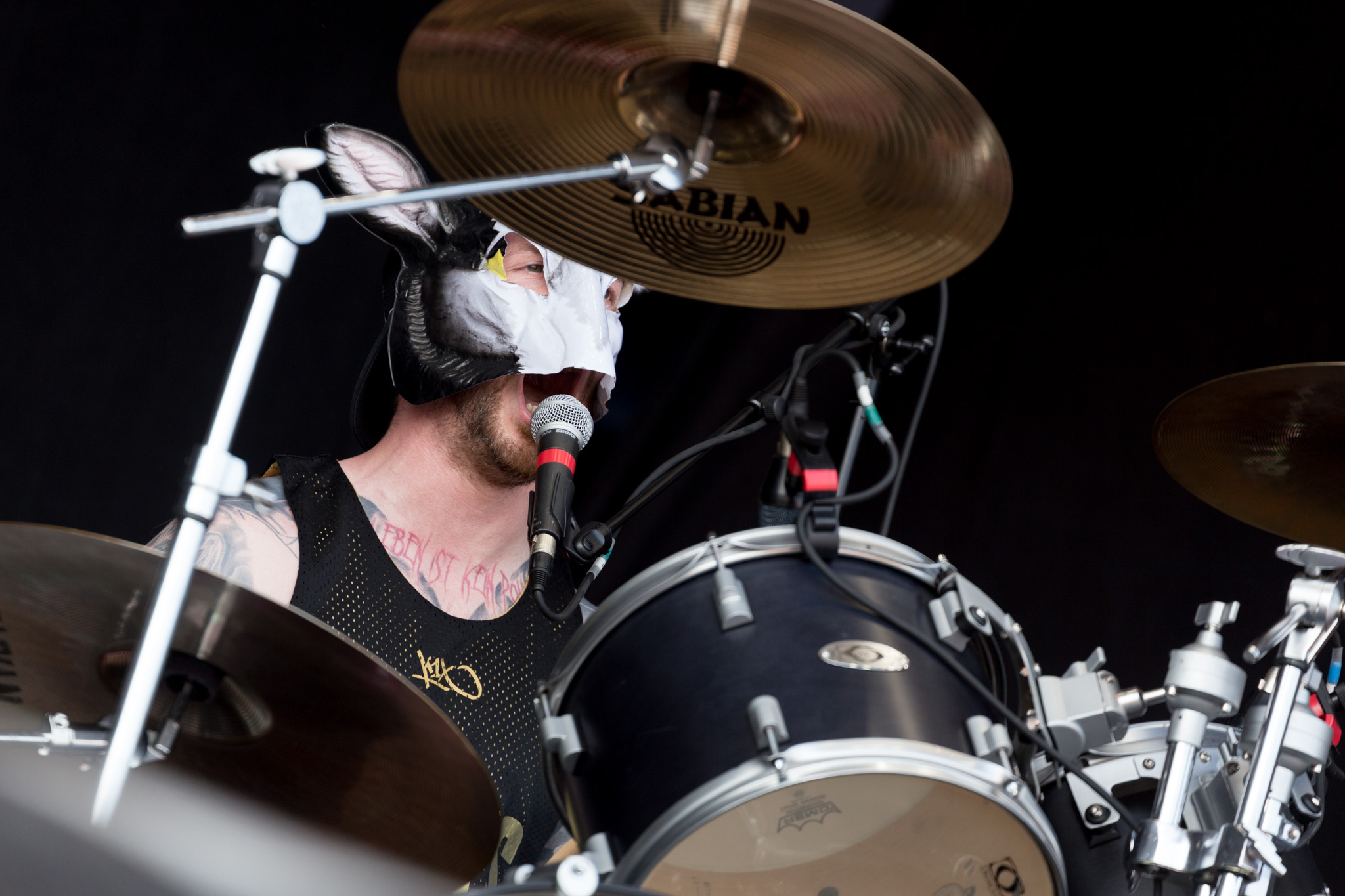 Milking the Goatmachine performing at the With Full Force Festival, July 2014